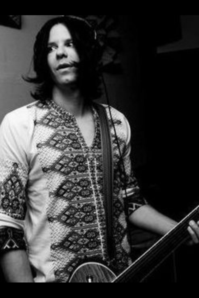 B&W photo of Nico Constantine playing guitar through his "guru" persona.